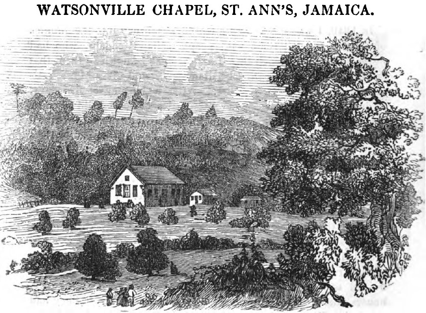 Watsonville Chapel, St. Anns's Jamaica (VII, p.92, August 1850)